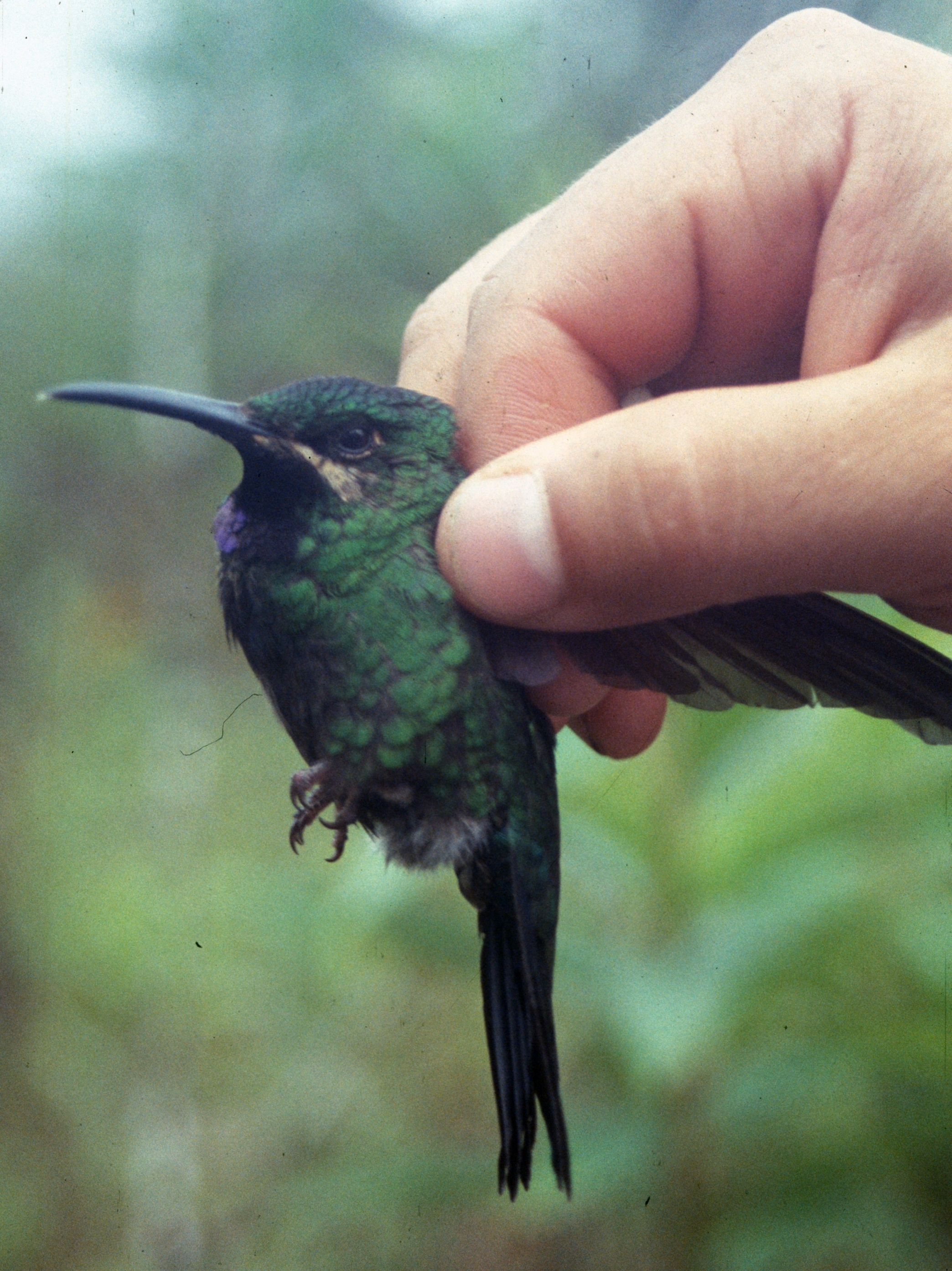 Black-throated Brilliant (Heliodoxa schreibersii). Female from Cordillera del Cóndor, Ecuador.